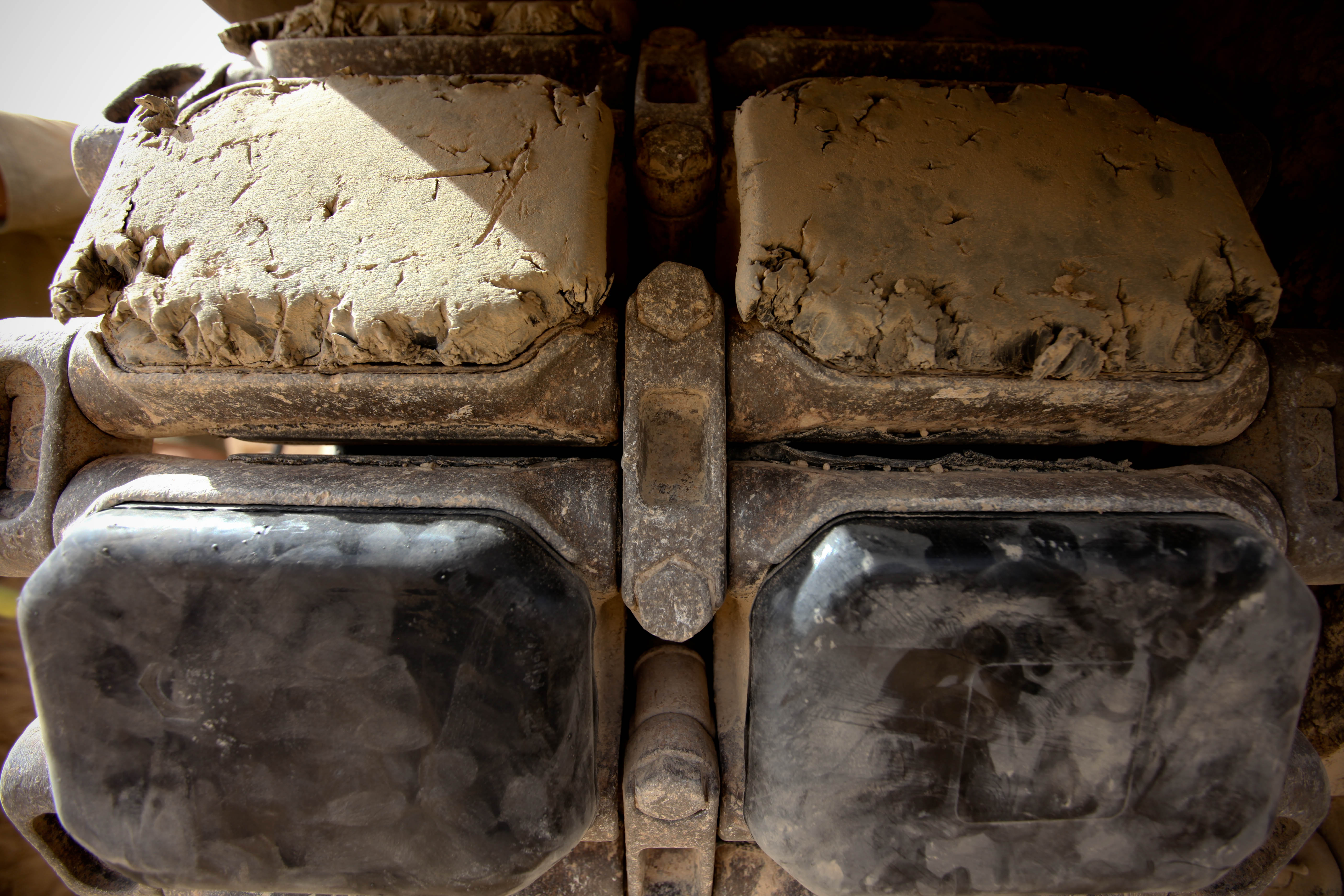 The rough terrain of Afghanistan takes a toll on tank pads (top) and must be replaced (bottom). The Company D tankers with 1st Tank Battalion, 1st Marine Regiment, 2nd Marine Division (Forward), work tirelessly to maintain their M-1A1 “Abrams” Main Battle Tanks. Each tank has more than 300 track pads that require replacement about every three months.